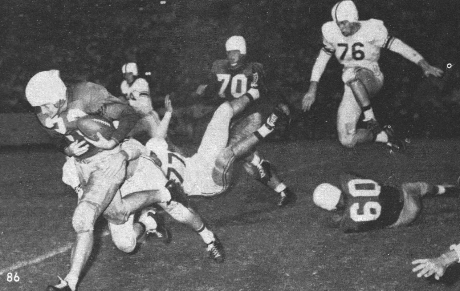 An American football game between the Houston Cougars and the Texas A&M Aggies during the 1952 season. Aggie players (Jack Little, #76; Dick Frey, #77) attempt to stop Harlan Baldridge of Houston (#23) during a rush.